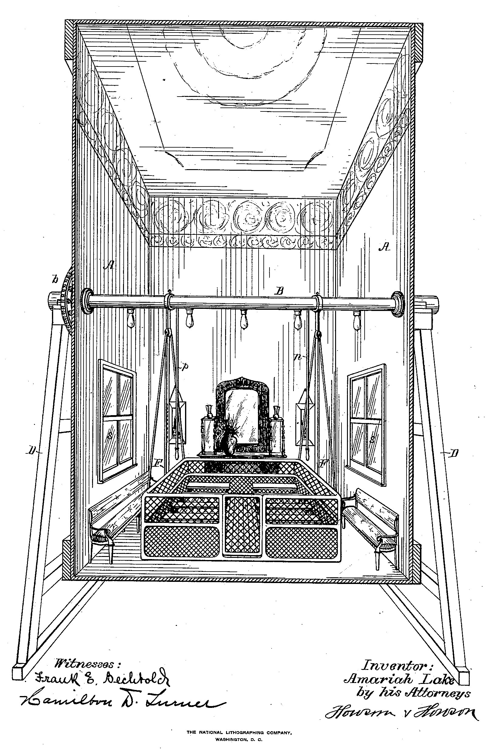 Drawing showing a cutaway of the haunted swing illusion. Figure 1 from US patent 508227A.